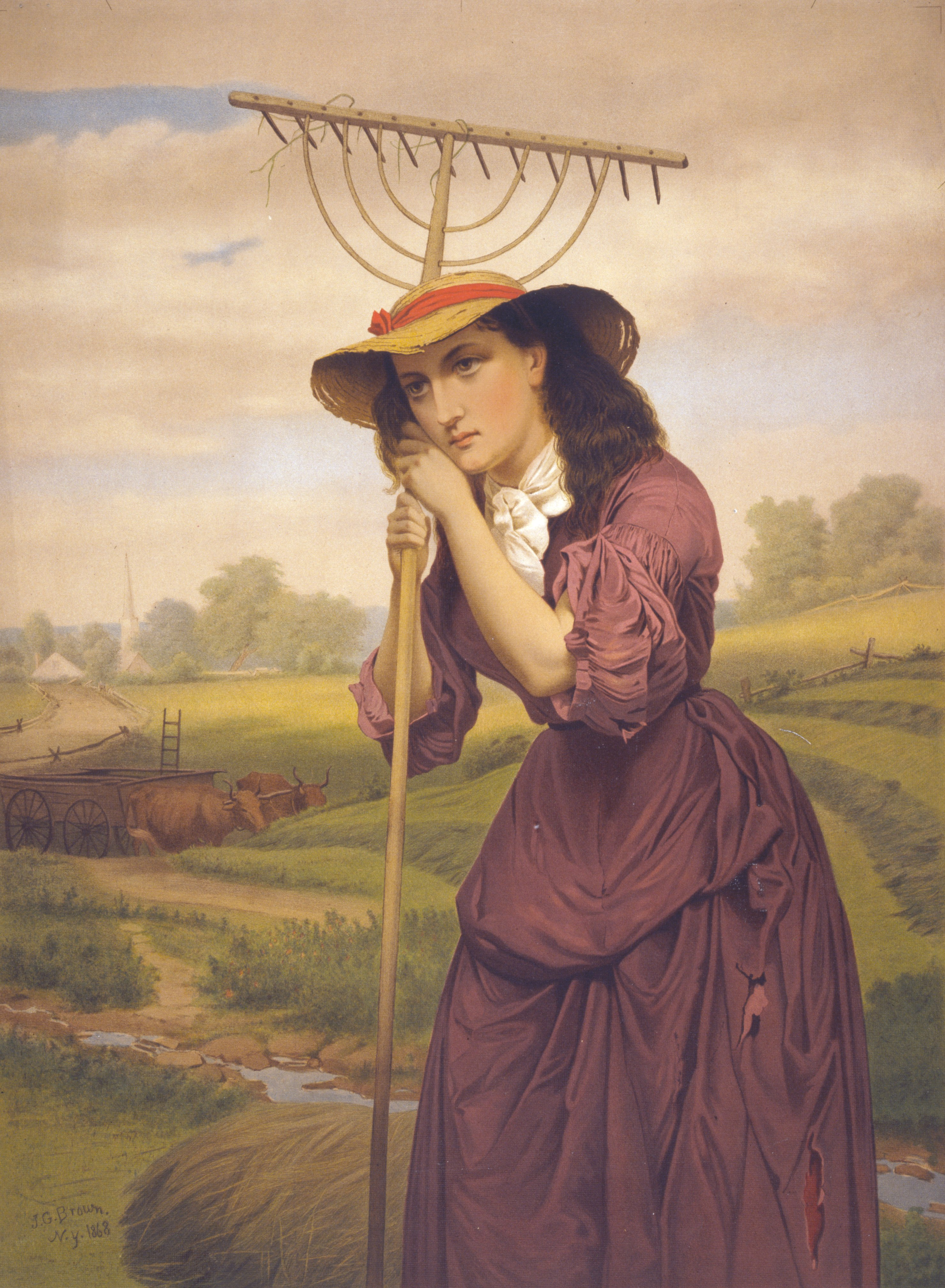 Maud Muller SUMMARY: Print shows Maud Muller, John Greenleaf Whittier's heroine in the poem of the same name, leaning on her hay rake, gazing into the distance. Behind her, an ox cart, and in the distance, the village. MEDIUM: 1 print : lithograph, color. NOTES: 4484 U.S. Copyright Office